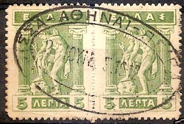 Postage stamp of 1913 Lithographic issue (pair of 5 lepta) with Railway Post Office (Larissa-Athens-Piraeus) postmark.